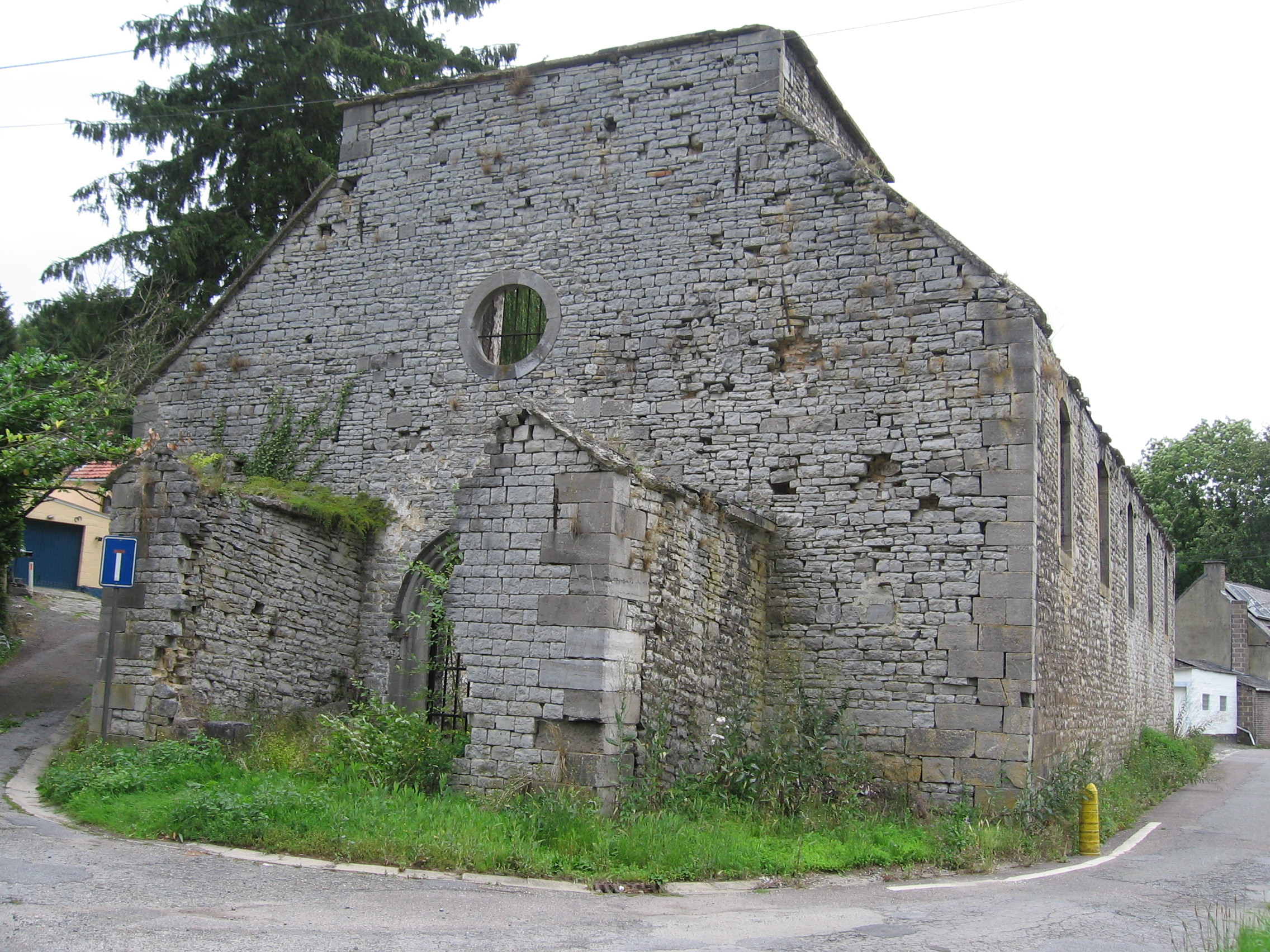 Ruins of the old Saint-Martin church of Frizet, province of Namur (Belgium)